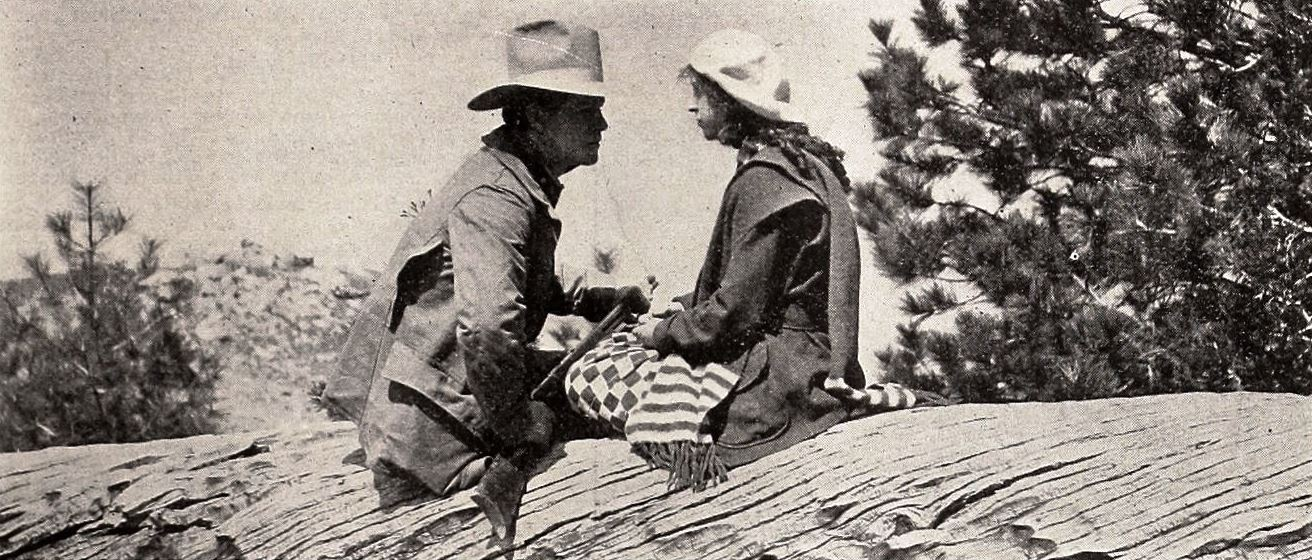 Still from the American drama film The Strength of Donald McKenzie (1916), on page 293 of the July 1916 Cine-Mundial (American Spanish language magazine). The caption in the magazine used the working title of the film, El Guía (The Guide).